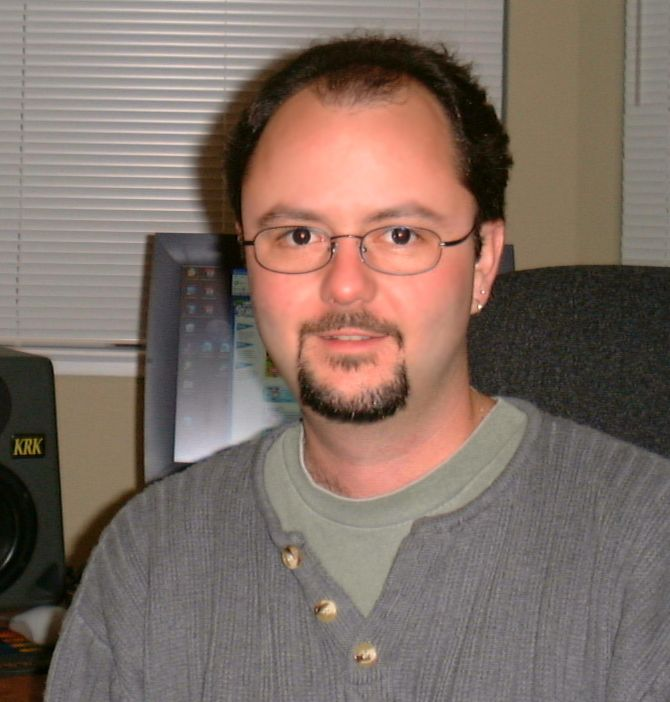 Game developer Michael Perry in 2004.